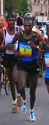 Robert Cheboror at the 2008 Amsterdam Marathon. He finished 3rd in 2.09.13.